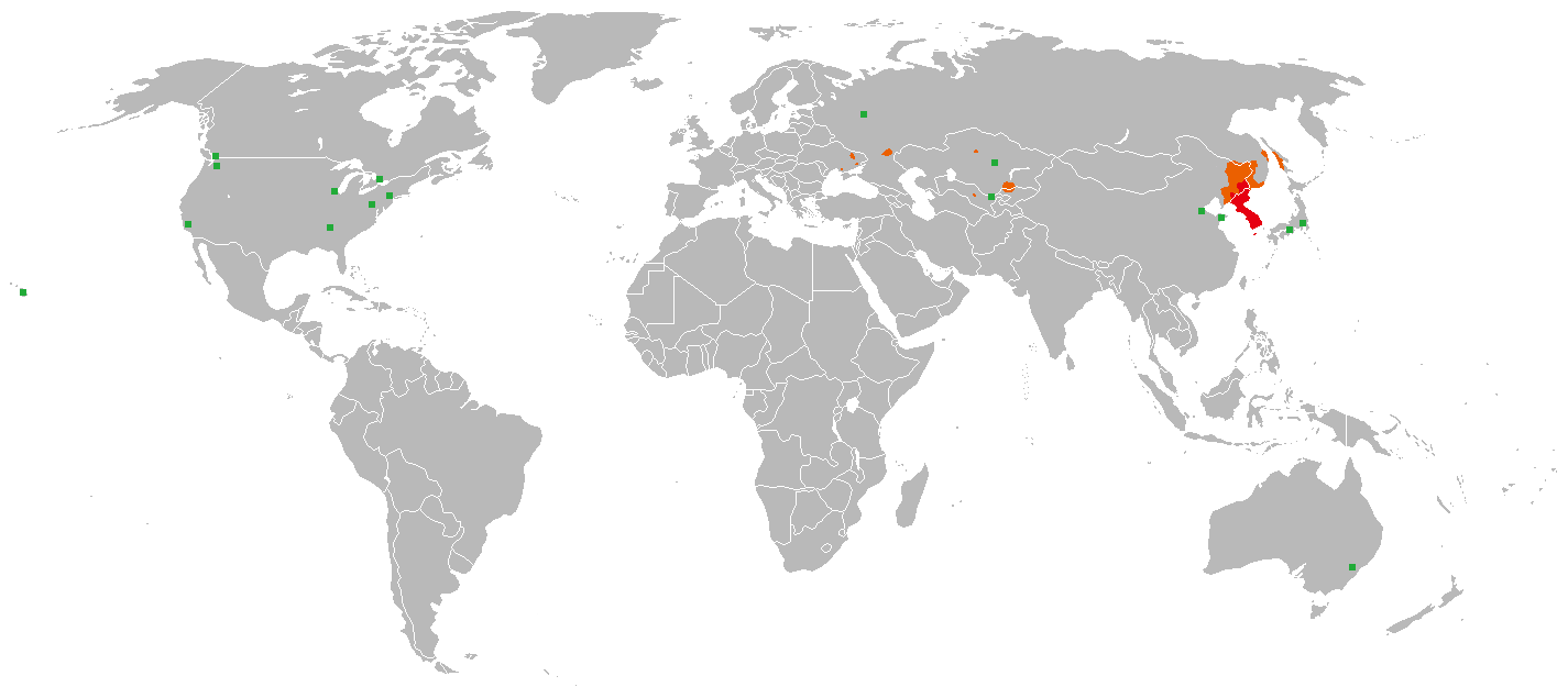 The map showing usage of Korean language in the world Red: Native language Orange: Used as an official language Green: Korean minorities